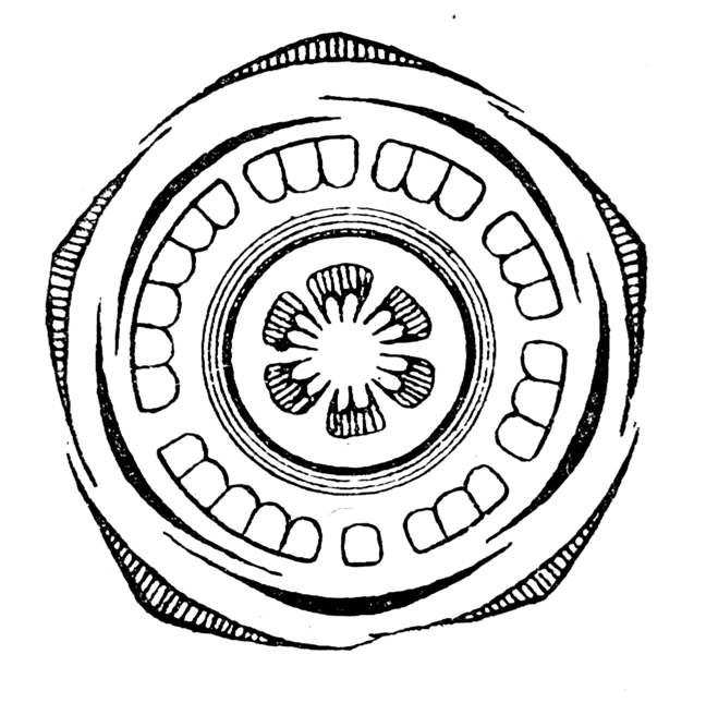 Diagram of a flower of Citrus vulgaris (Rutaceae)